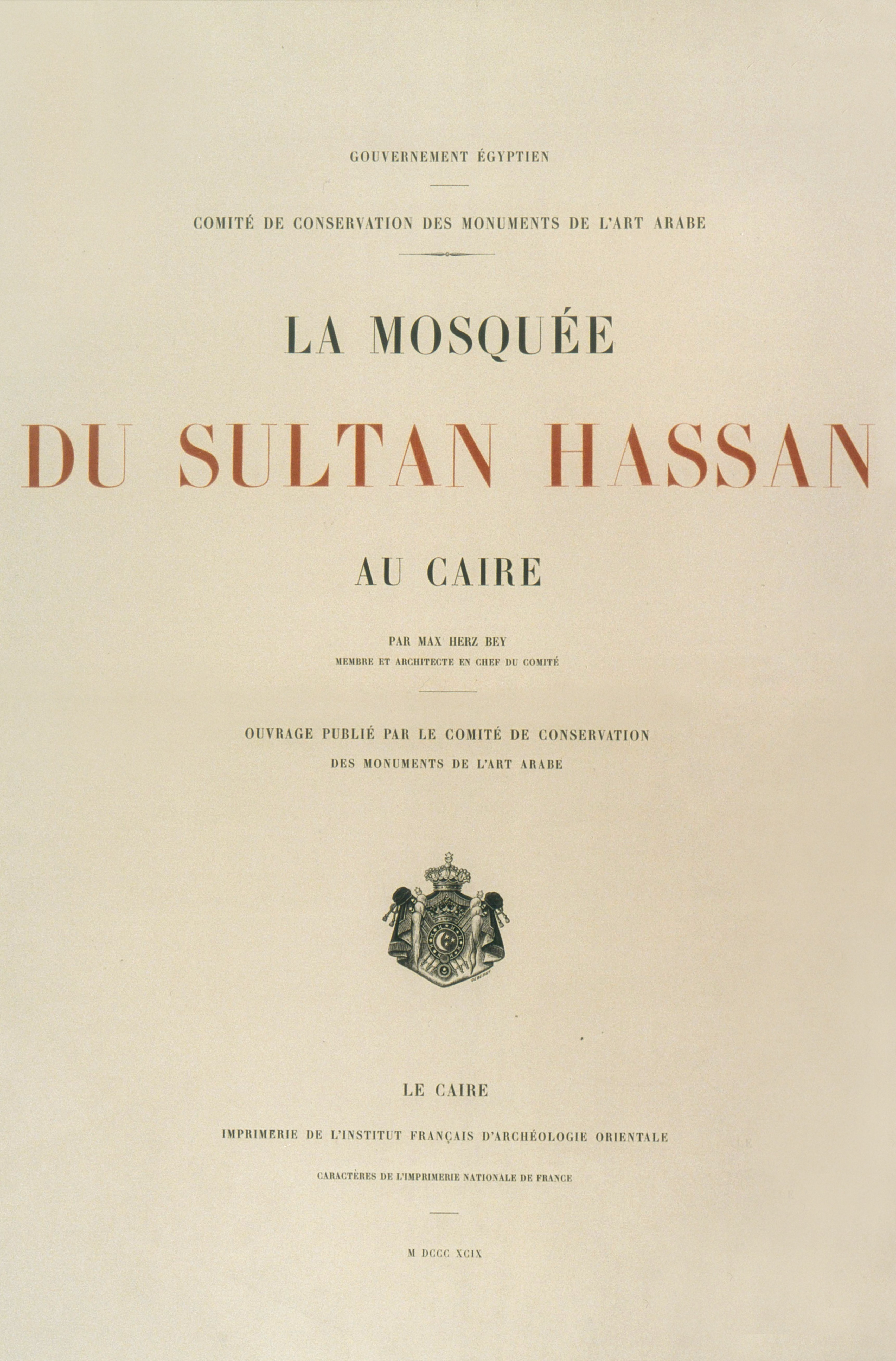 Title page of the monograph on Sultan Hasan’s mosque.